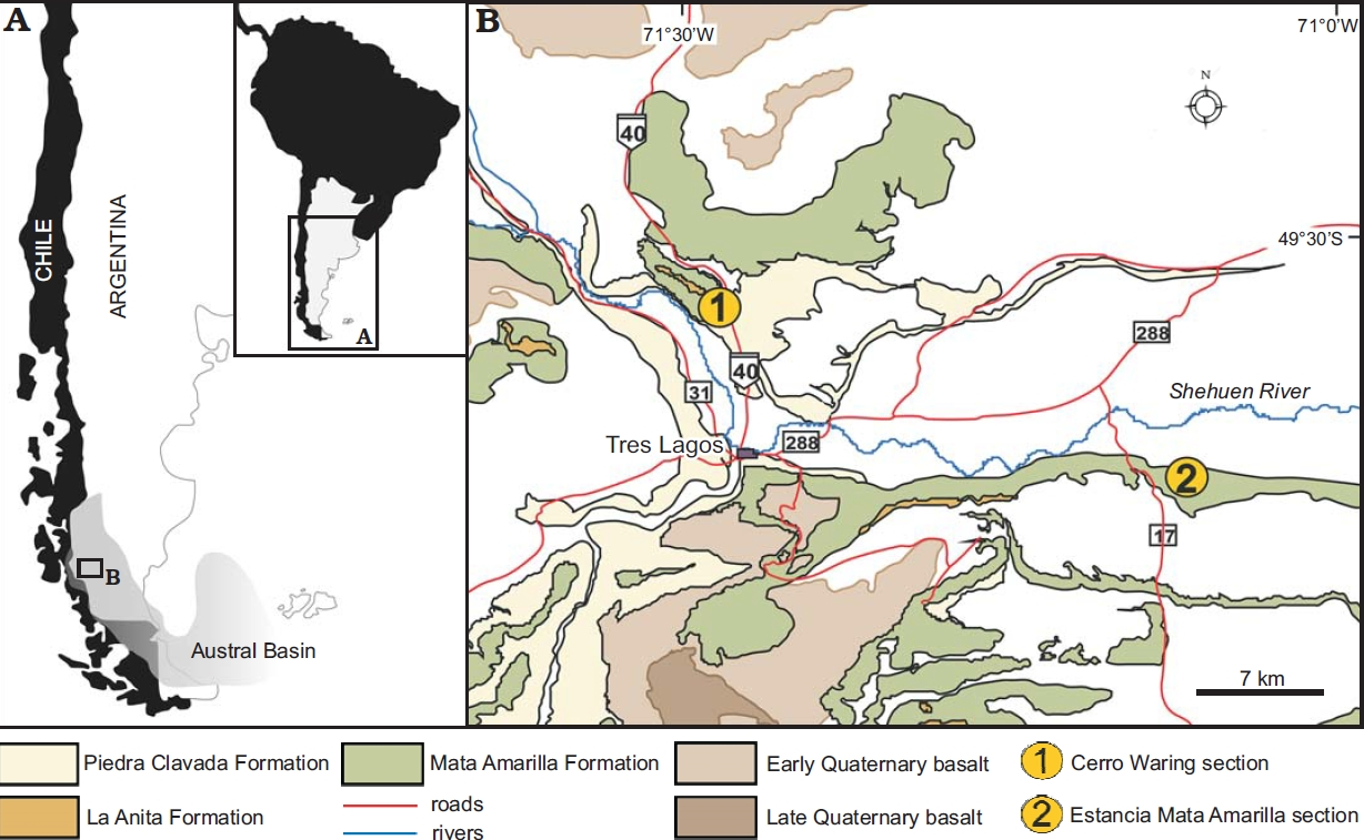 Austral Basin - Geologic Map - Mata Amarilla, La Anita & Piedra Clavada Formations, Argentina